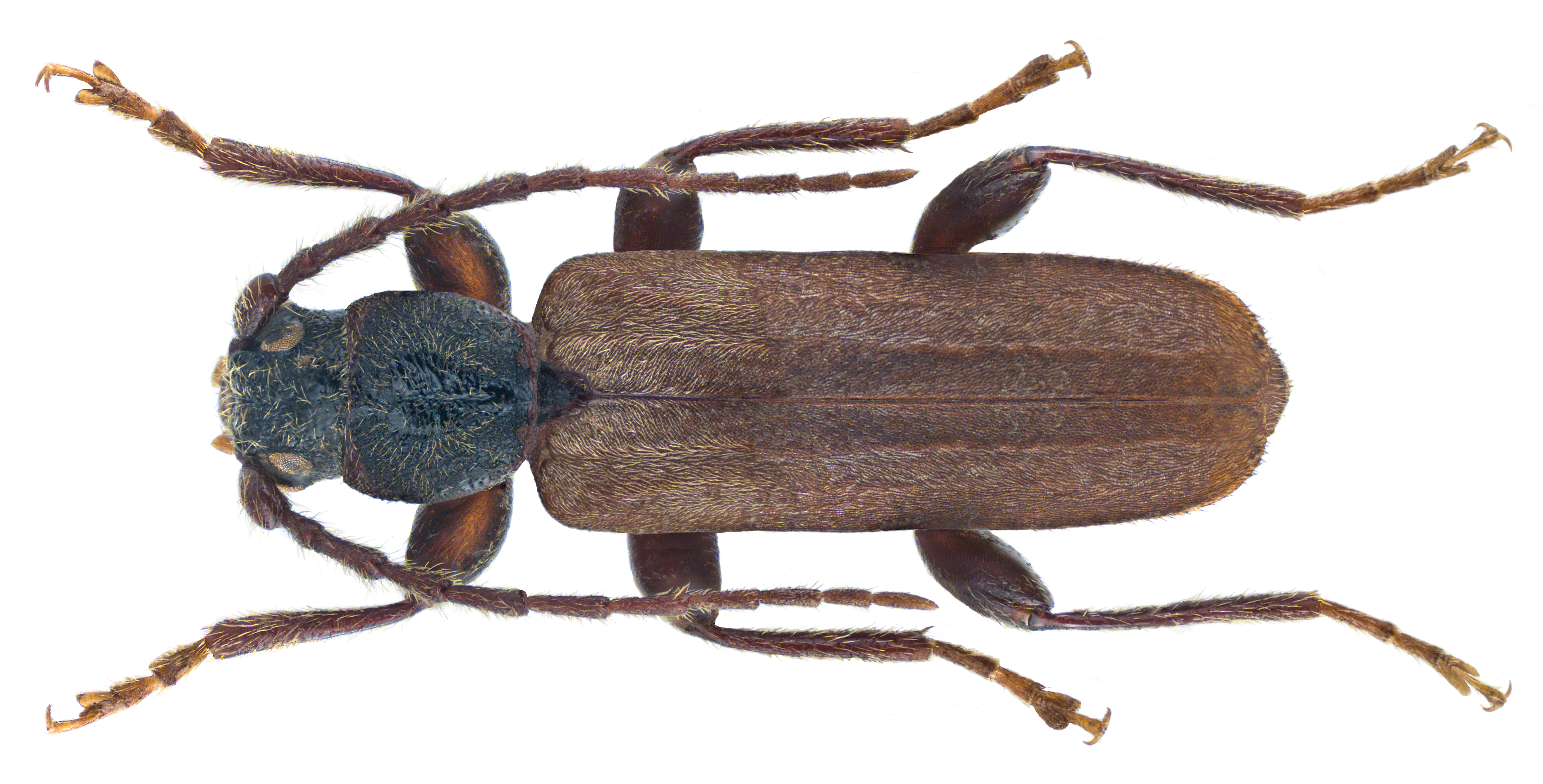 Family: Cerambycidae Size: 10,0 mm (8 to 17 mm) Origin: Europe Ecology: lives of softwood Location: Germany, Bavaria, Lower Franconia, Schweinfurt, Sennfeld leg det. U.Schmidt, 15.VI.1980 Photo: U.Schmidt, 2015